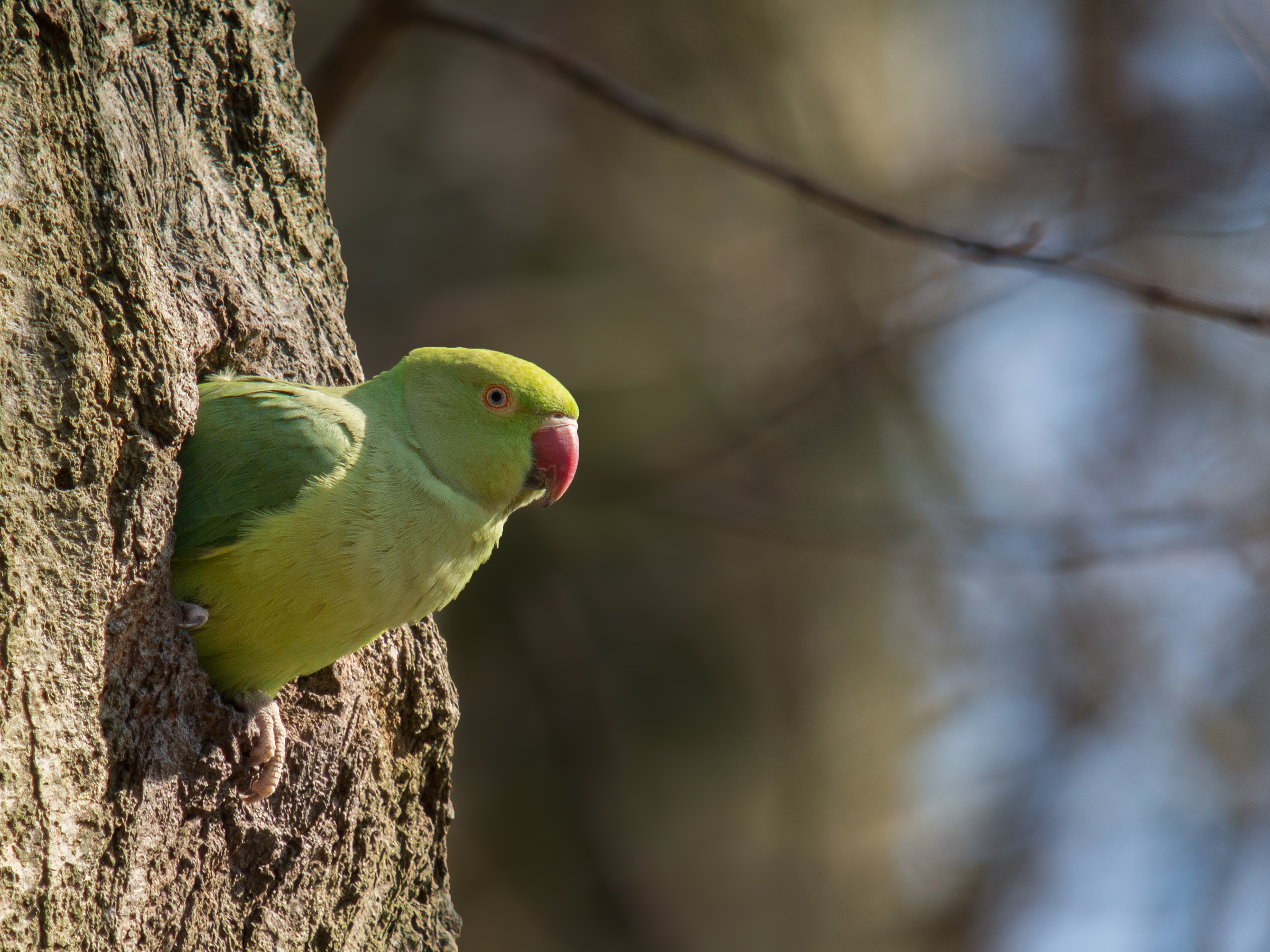 Rose-ringed Parakeet (Psittacula krameri) at Parc de Woluwe, Brussels, Belgium. Photograph taken by digiscoping with Swarovski ATM 80 HD 30 X, Nikon1 V1 + 11-27,5 mm lens (Adapter DCB)